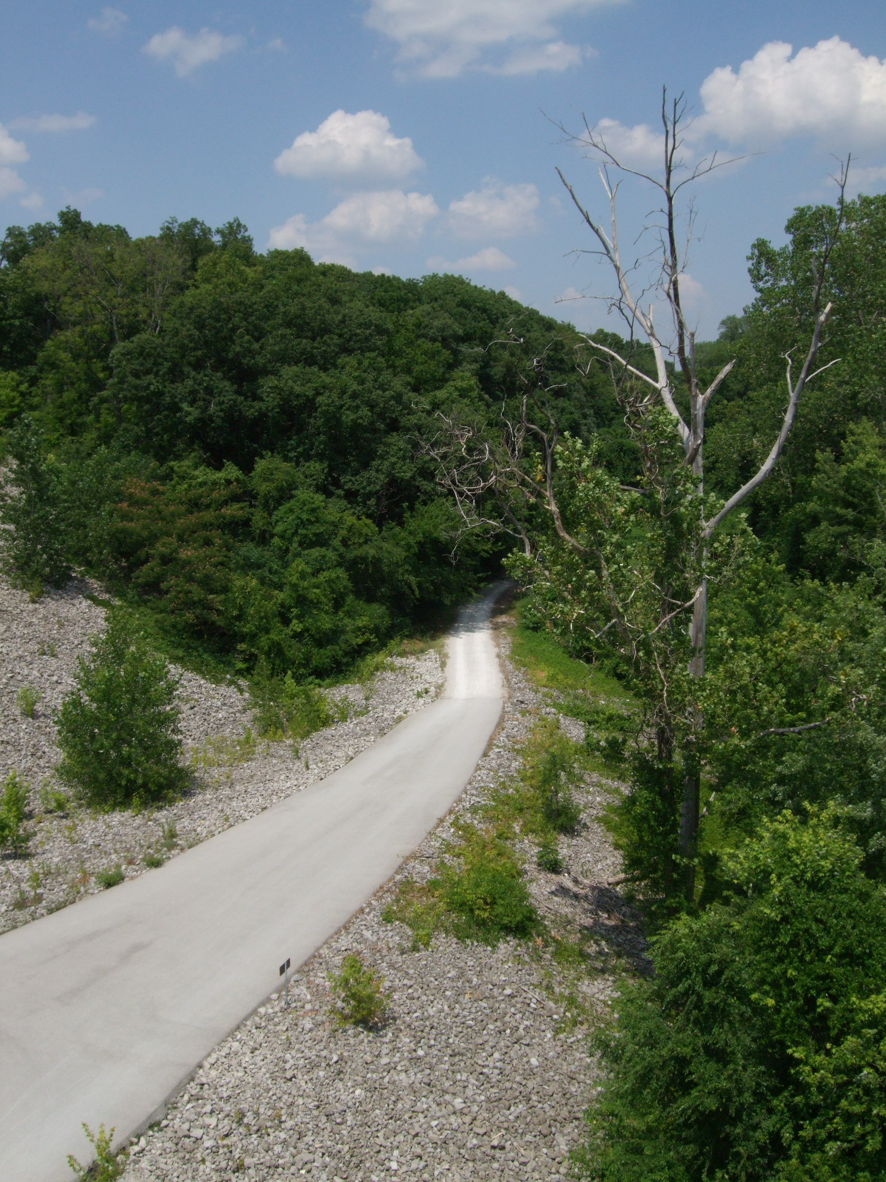 Katy trail at Highway 364. This was shot from the overpass that connects the Katy trail to Creve Coeur park.